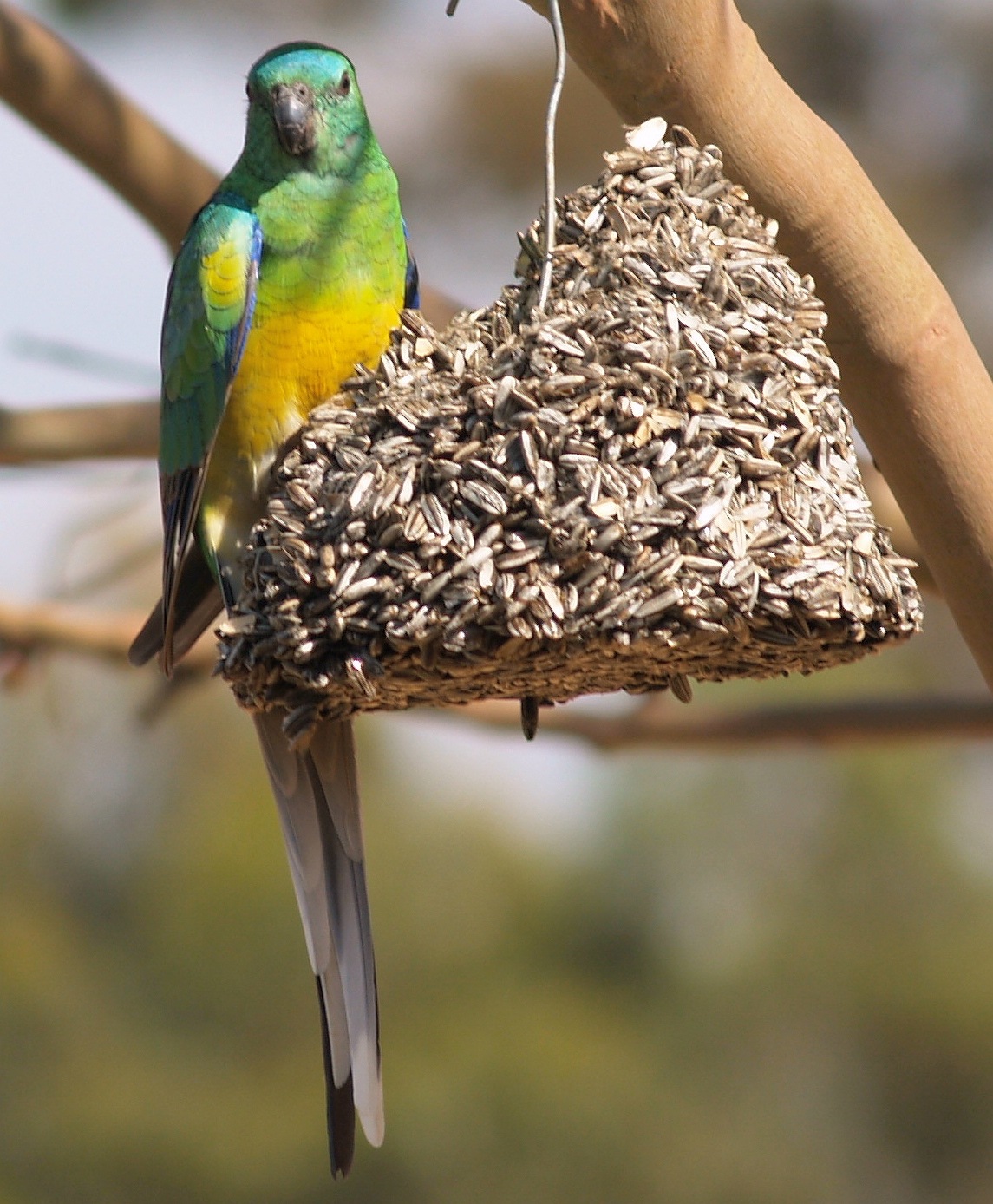 A male Red-rumped Parrot Psephotus haematonotus enjoying a feed at the bird feed ring.